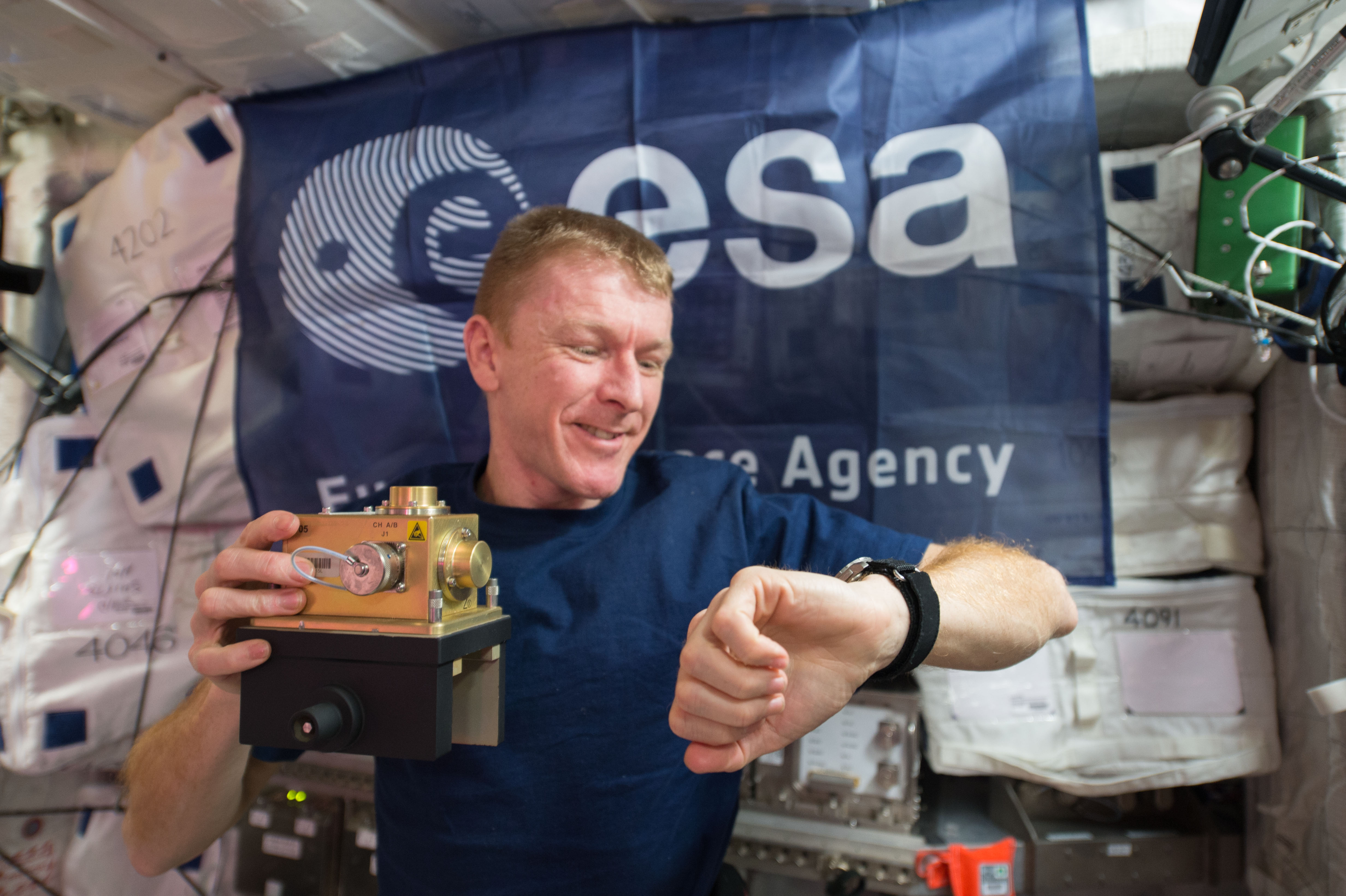 European Space Agency (ESA) astronaut Timothy Peake prepares to install a space acceleration measurement system sensor inside the European Columbus module aboard the International Space Station. The device is used in an ongoing study of the small forces (vibrations and accelerations) on the International Space Station resulting from the operation of hardware, crew activities, dockings and maneuvering. Results generalize the types of vibrations affecting vibration-sensitive experiments.